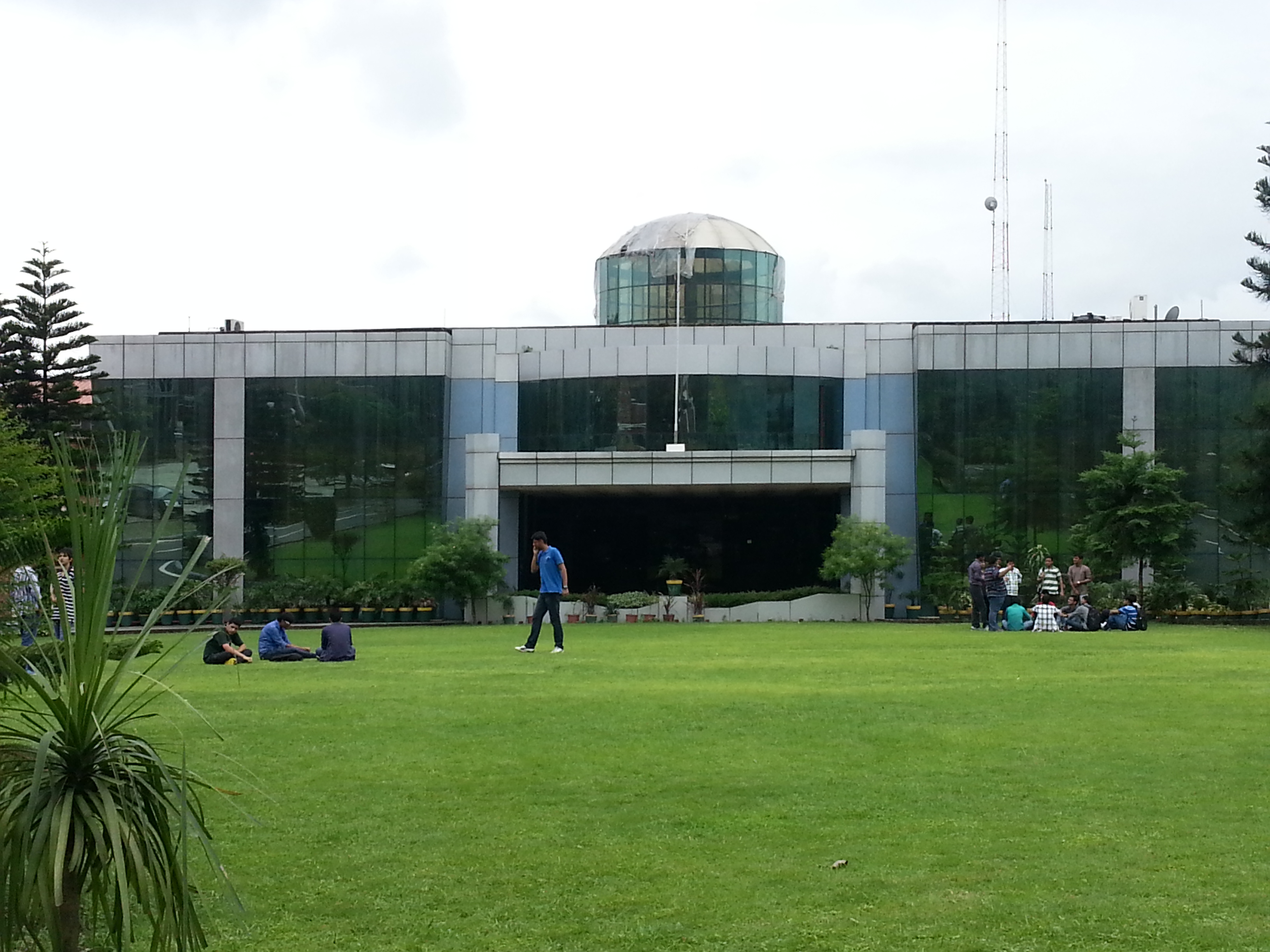 Main and oldest building of DIT University